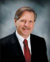 Portrait of United States Senator John Hoeven of North Dakota.